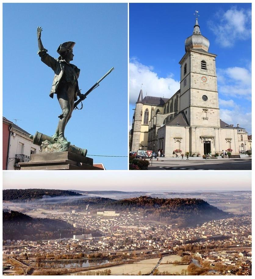 A collage of major sights in the French town of Remiremont